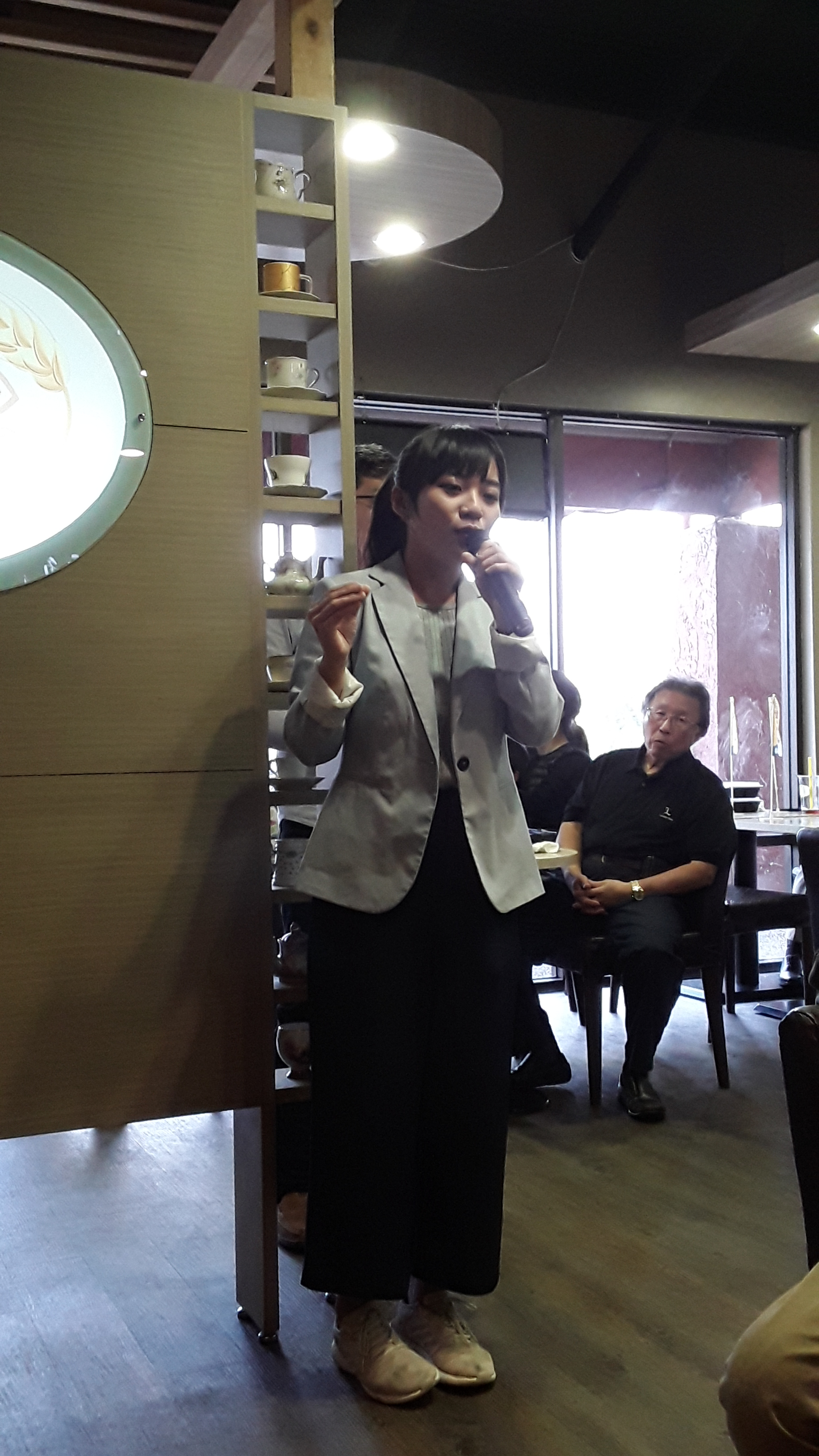 Kaohsiung City Councilor Jie Huang (黃捷) in Seattle Area on Aug 20, 2019